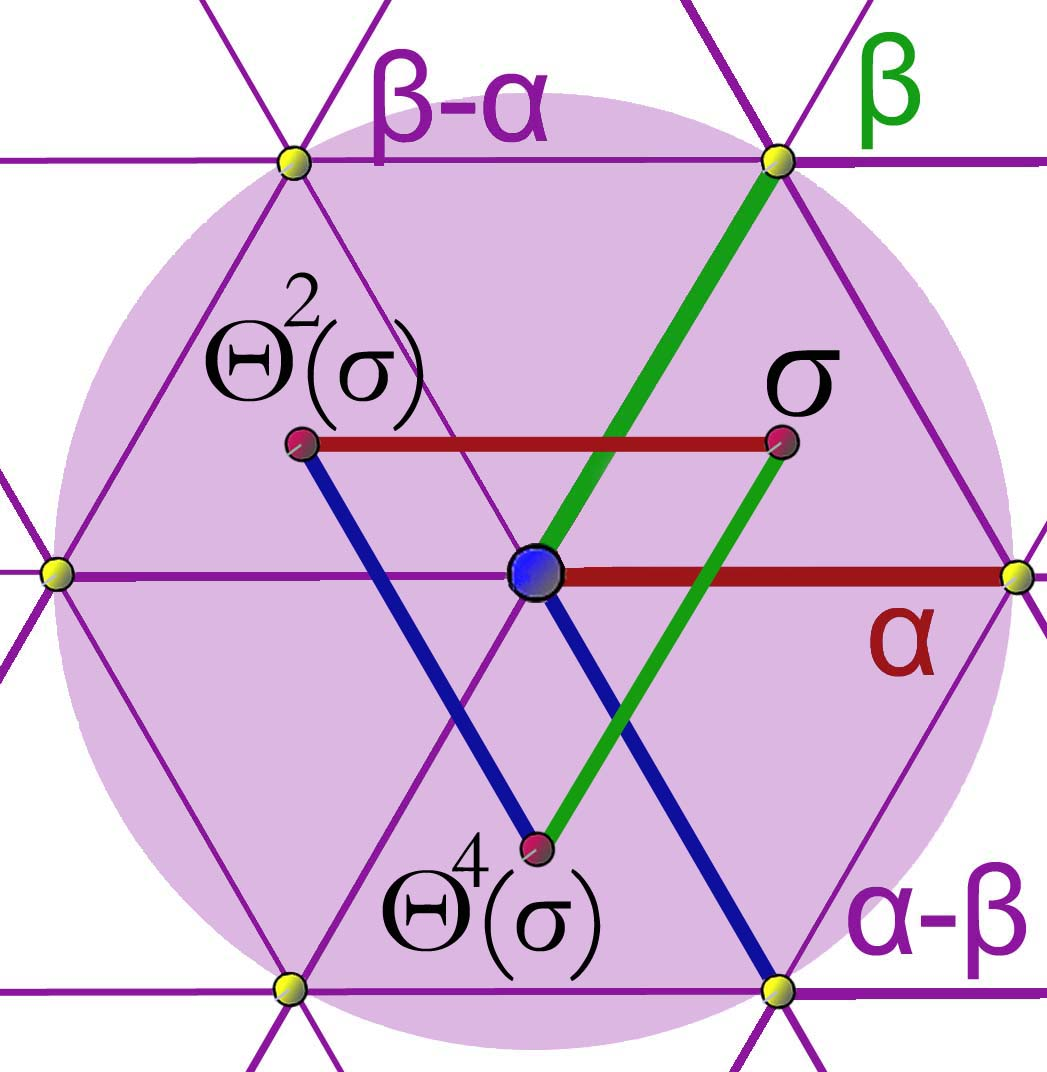 Exemple of a lattice, dimension 2 and hexagonal symetry. Detail for a demo